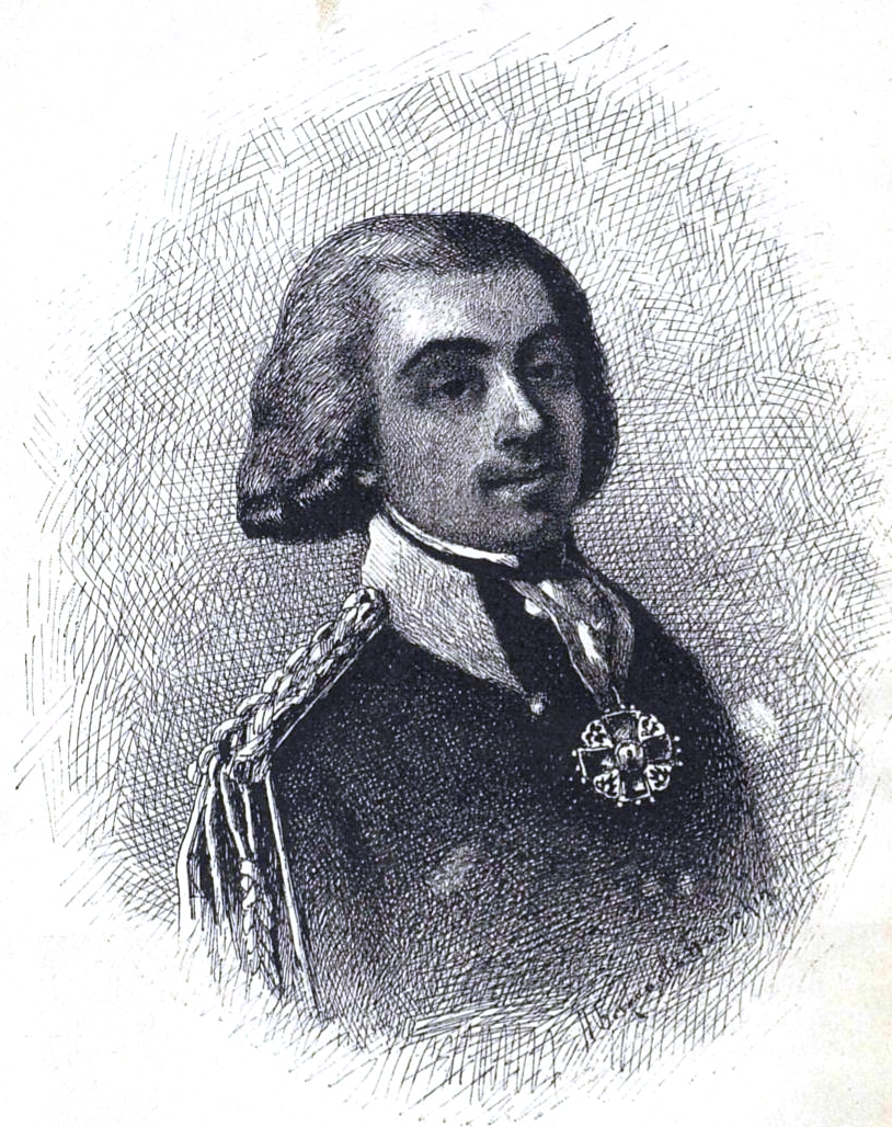 Rachinsky, Anton Michaylovich – first chief of the Lifeguard His Imperial Highness Jaeger Regiment.